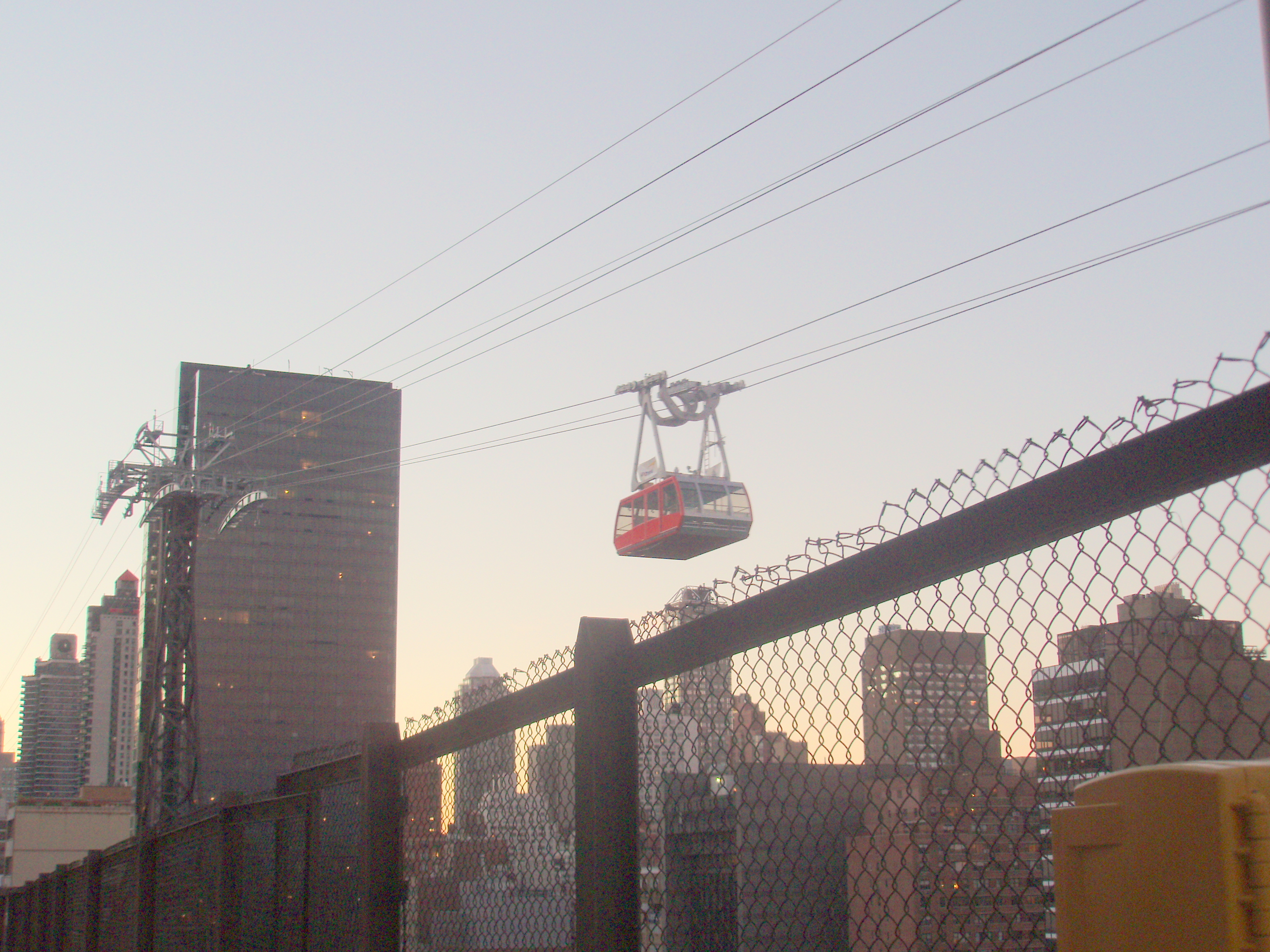 A new Roosevelt Island tram car heading towards Manhattan. This tram car is being tested for future service. This photo was taken from the walkway on the Queensboro Bridge.